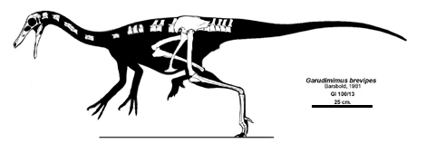 Skeletal restoration of Garudimimus brevipes'